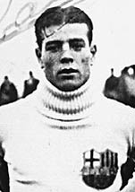 Spanish goalkeeper Ricardo Zamora, playing for FC Barcelona